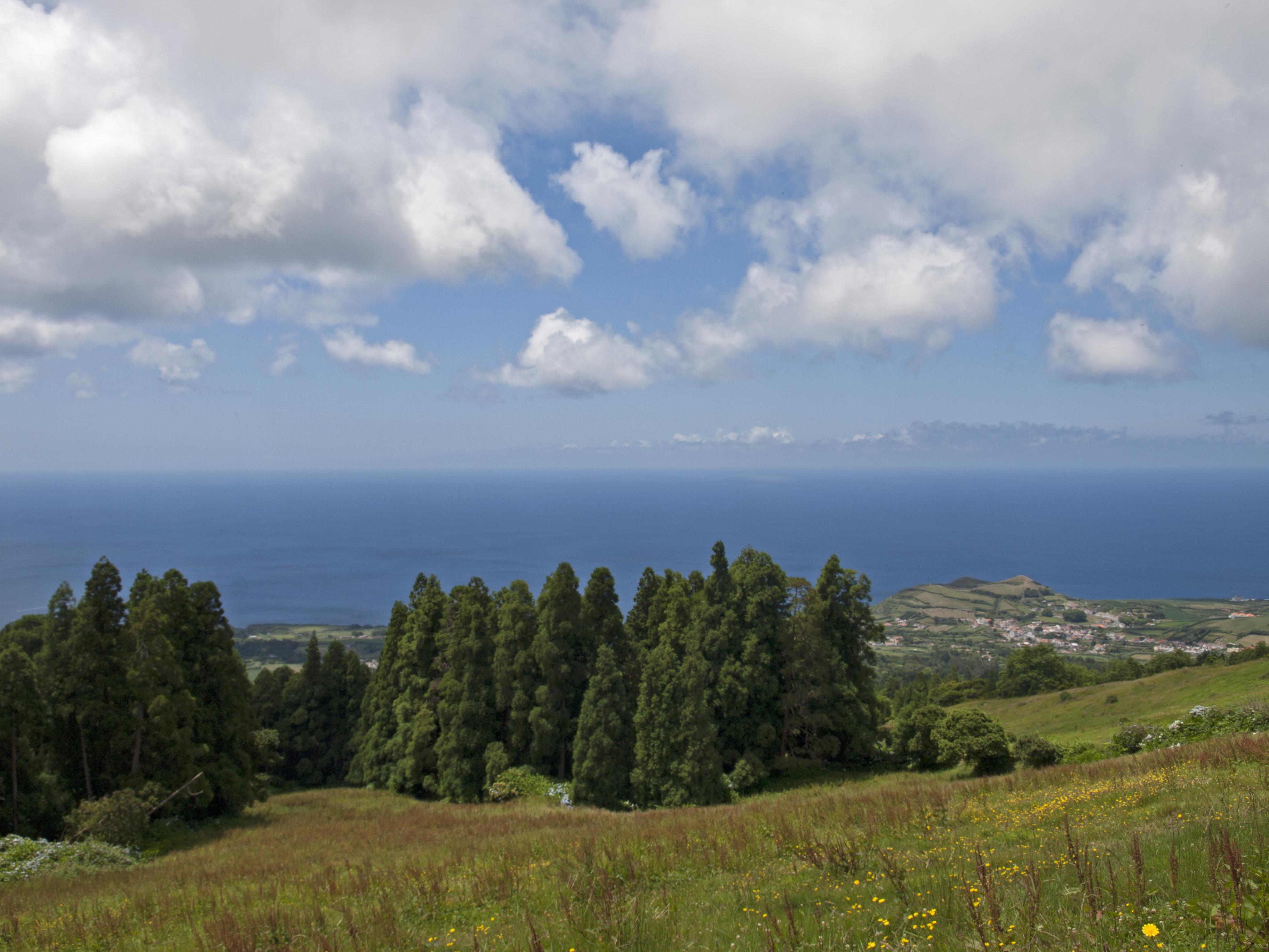 Atlantic ocean and cryptomeria forests from the western part of the caldera of Sete Cidades